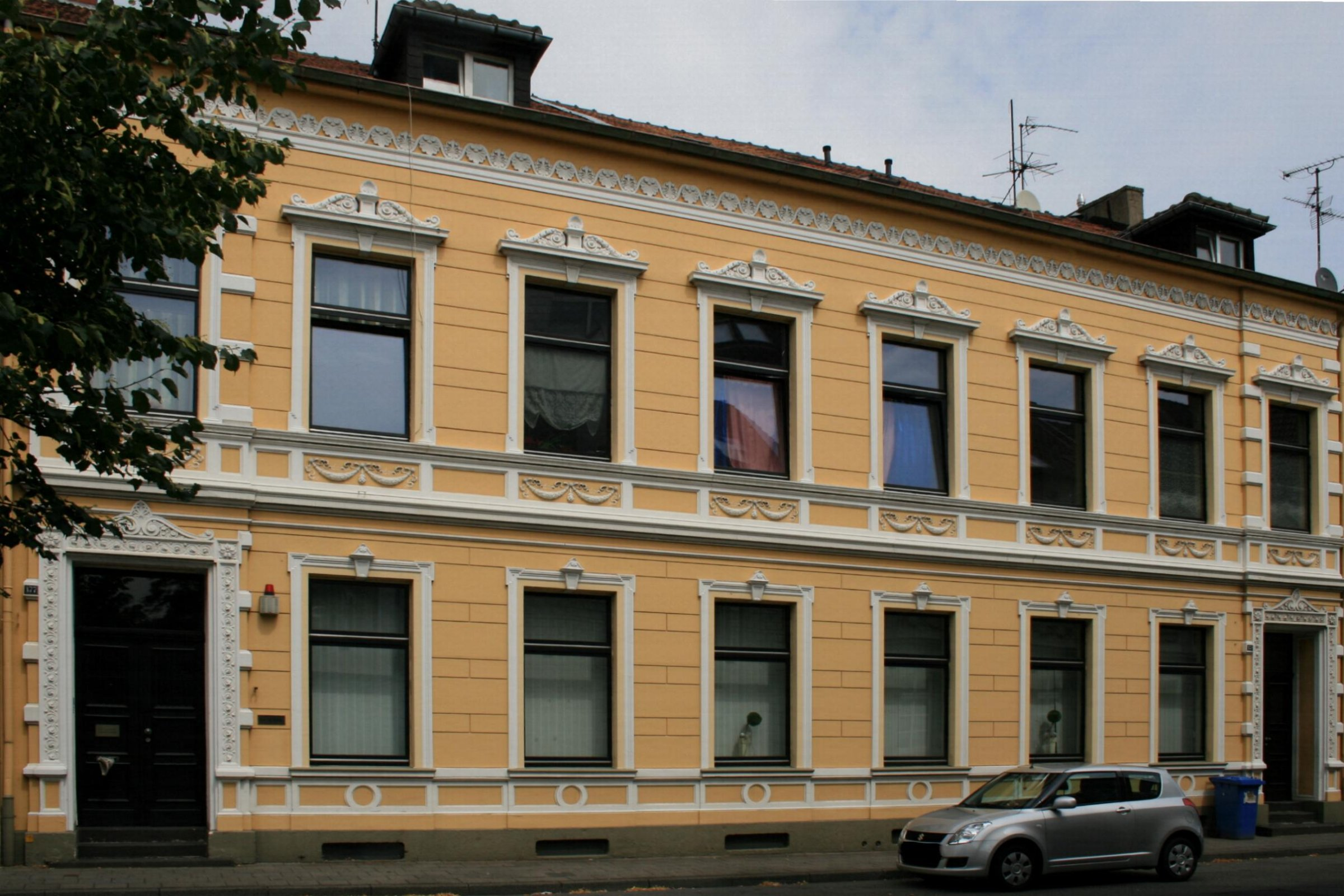 Cultural heritage monument No. M 022 in Mönchengladbach